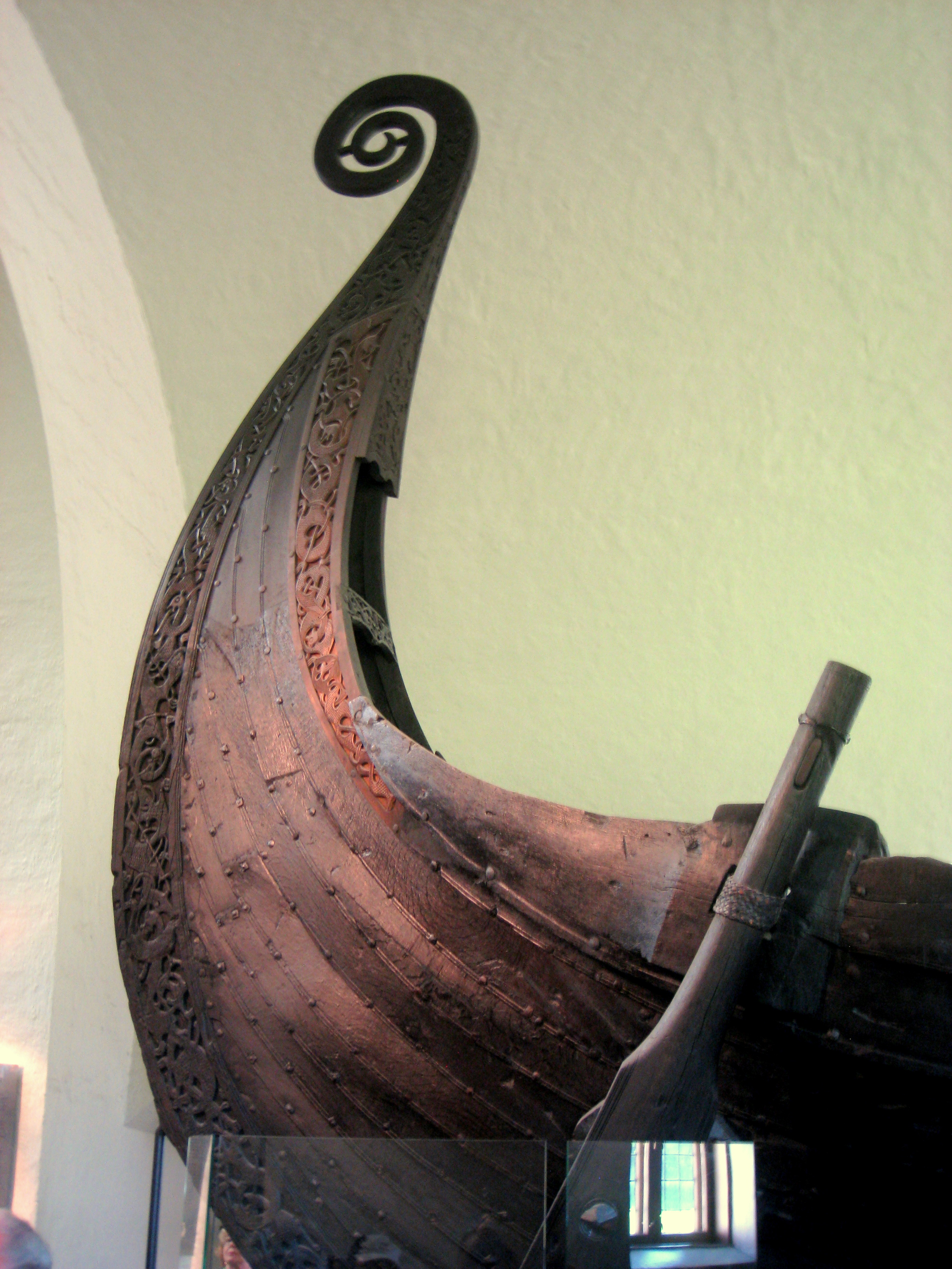 Oseberg ship, Kulturhistorisk museum (Viking Ship Museum), Oslo, Norway.